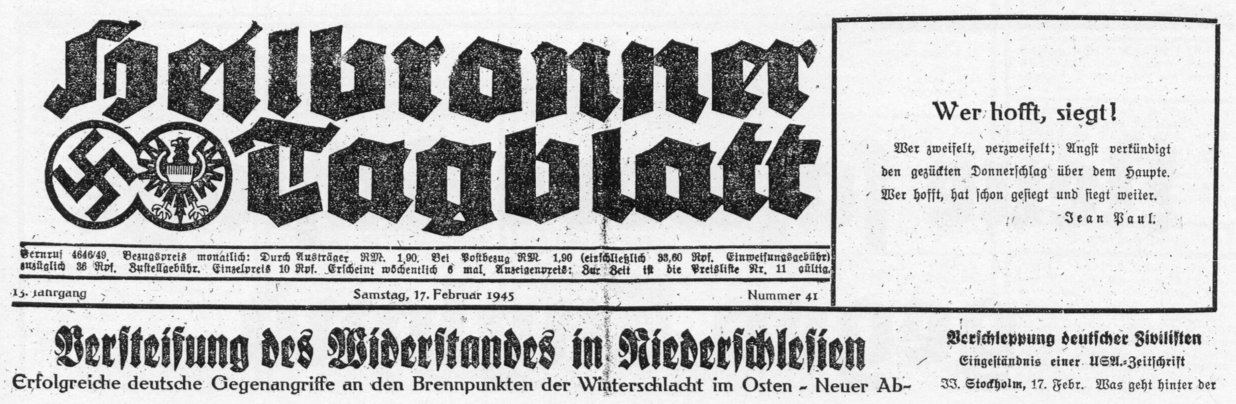 Masthead of the Heilbronn newspaper Neckar-Echo from February 17, 1945